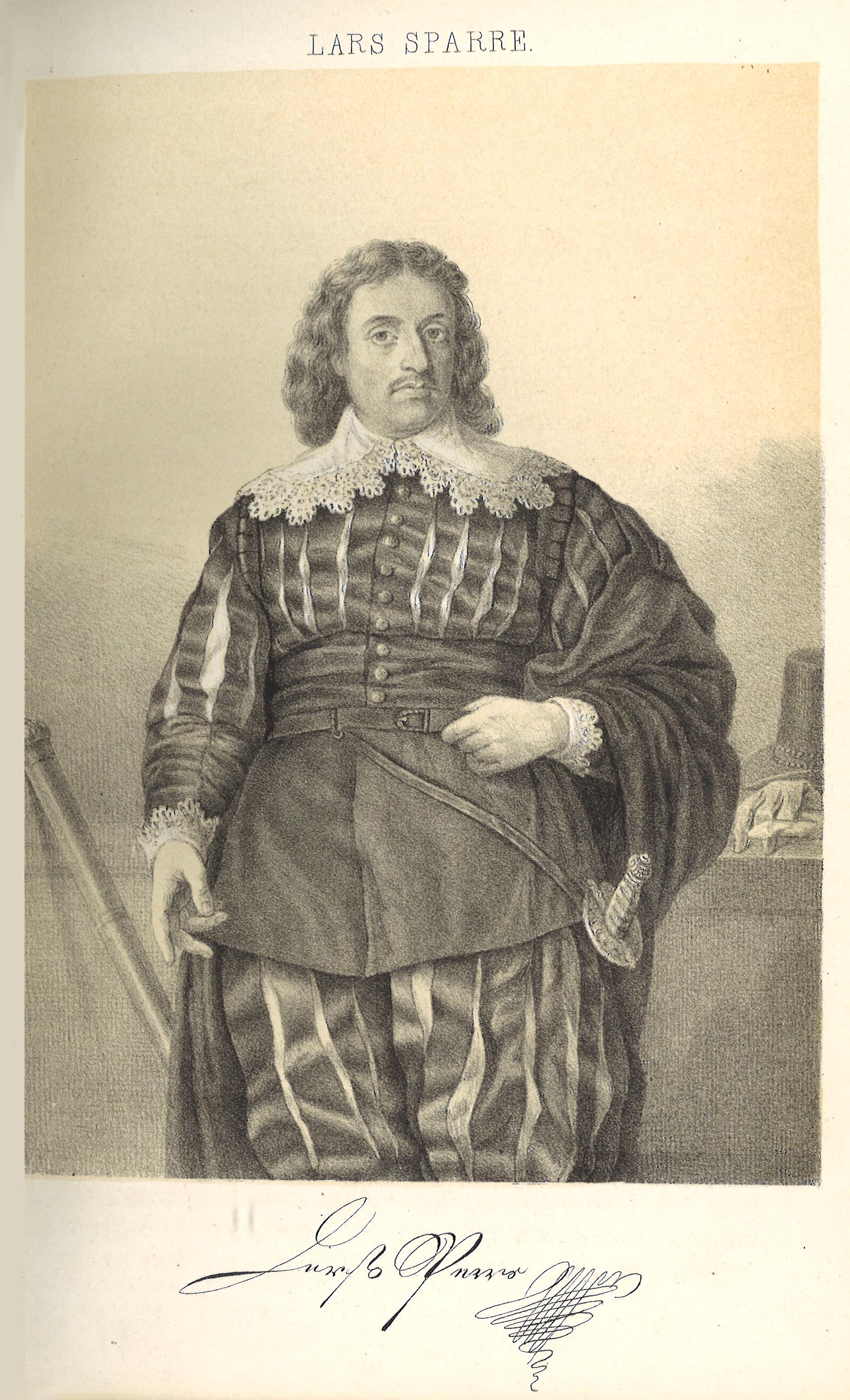 Lars Eriksson Sparre (1590-1644), Swedish senator, county governor and "lantmarskalk" (chairman of the estate of nobility).